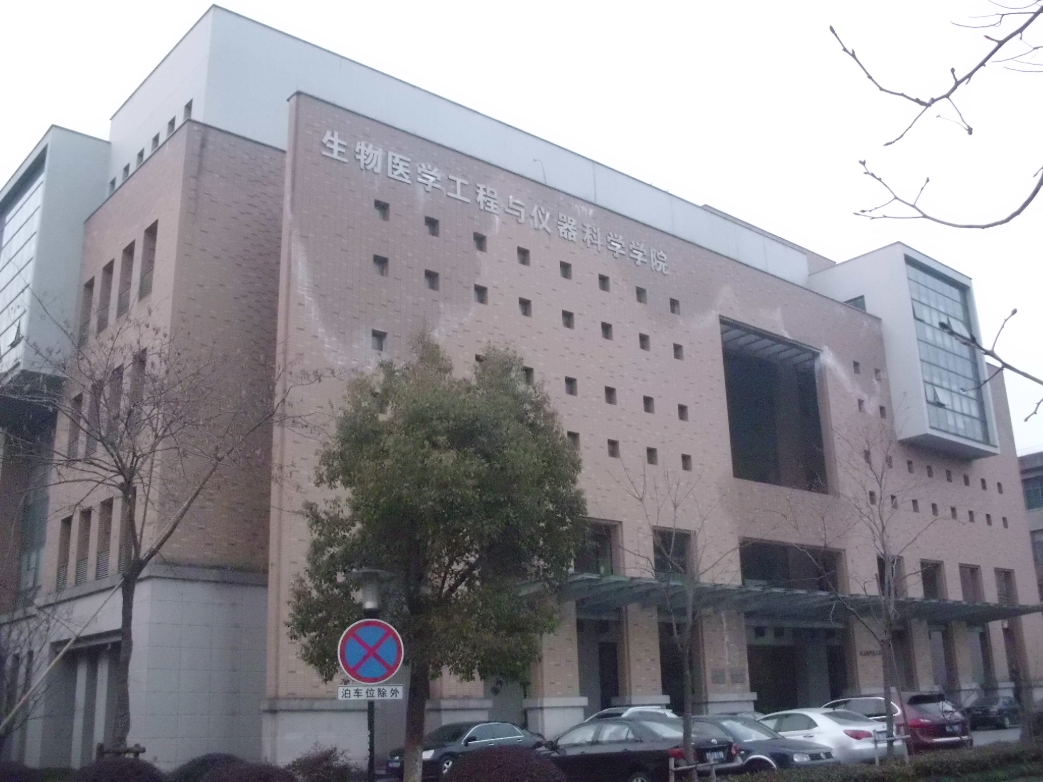 Yuquan campus of Zhejiang University (Hangzhou, China).